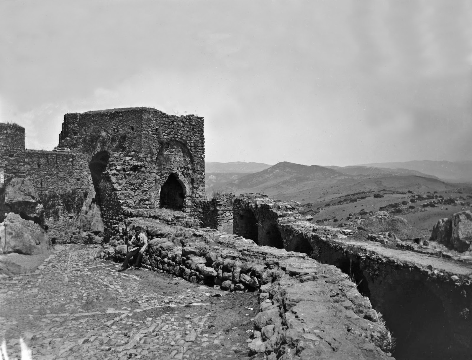 Entrance to Castellar Photograph by George Washington Wilson taken in the 1870-1890s in Campo de Gibraltar in Southern Spain just north of Gibraltar. Pictures found by Neville Chipolina